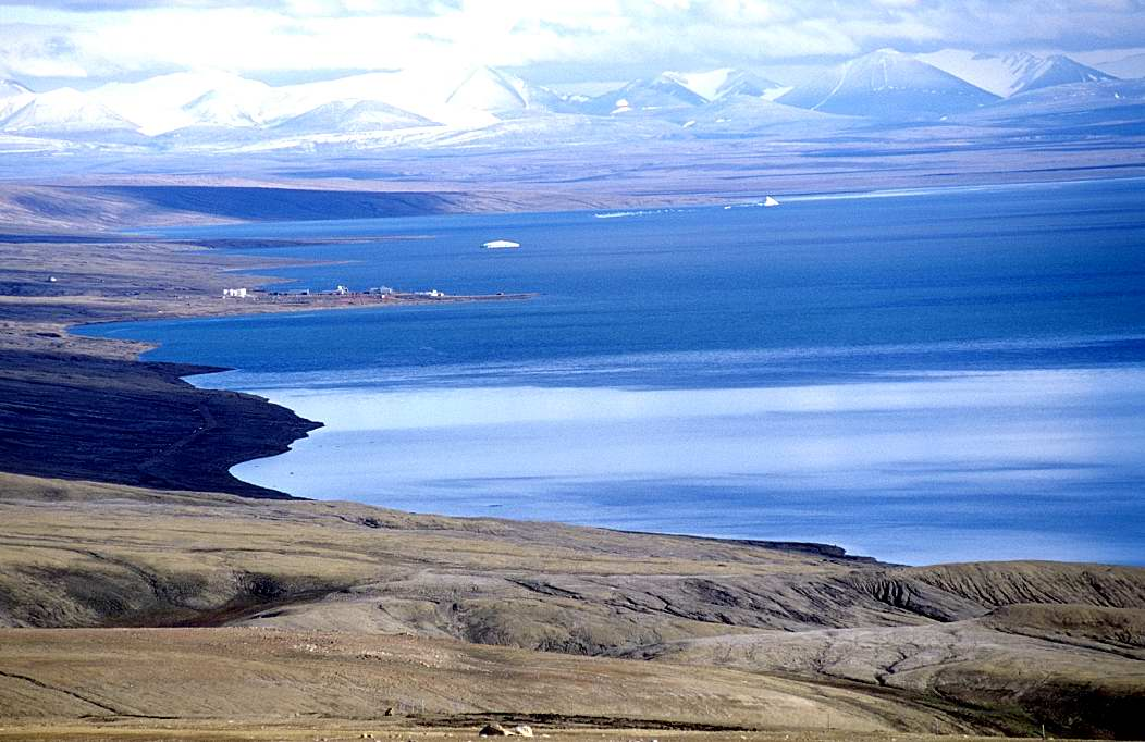 Slidre Fiord with Eureka Weather Station; horizon: Fosheim Peninsula and Sawtooth Range on Ellesmere Island, Nunavut, Canada